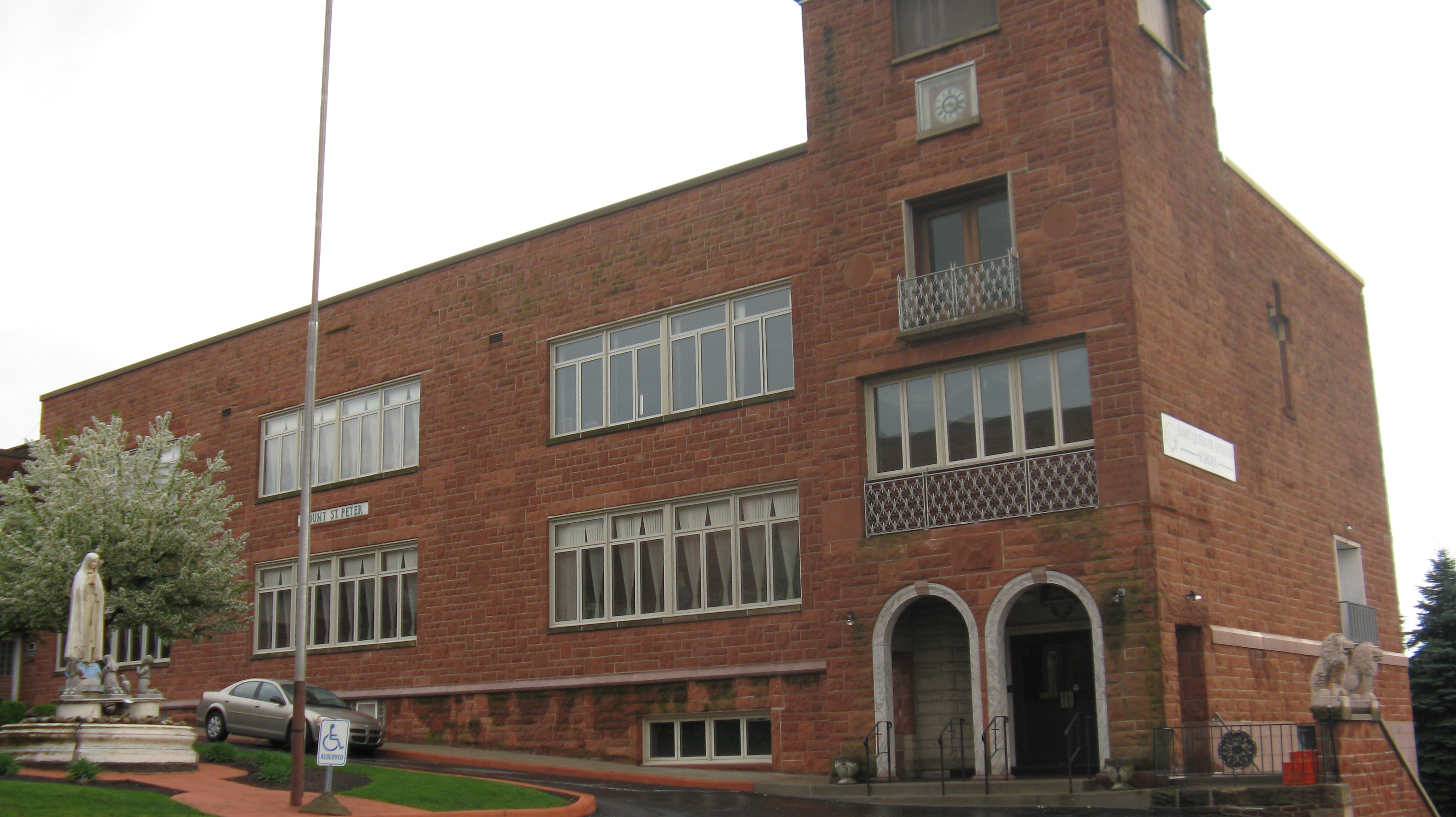 This is Mount Saint Peter School, which is now part of Mary Queen of the Aposoles School.